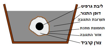 Acheson Furnace